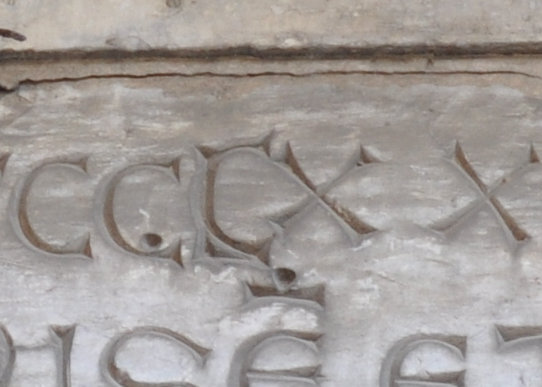 Inscription on the lintel of S. Girolamo's church in Lucca (IT). Detail: superposed 'L' and 'C' within the Roman numerals for the year (first row). To the left, the third 'C' is superposed on a separation mark.